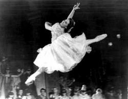 Olga Vasiliyevna Lepeshinskaya as Kitry in Don Quixote (ballet). 1940